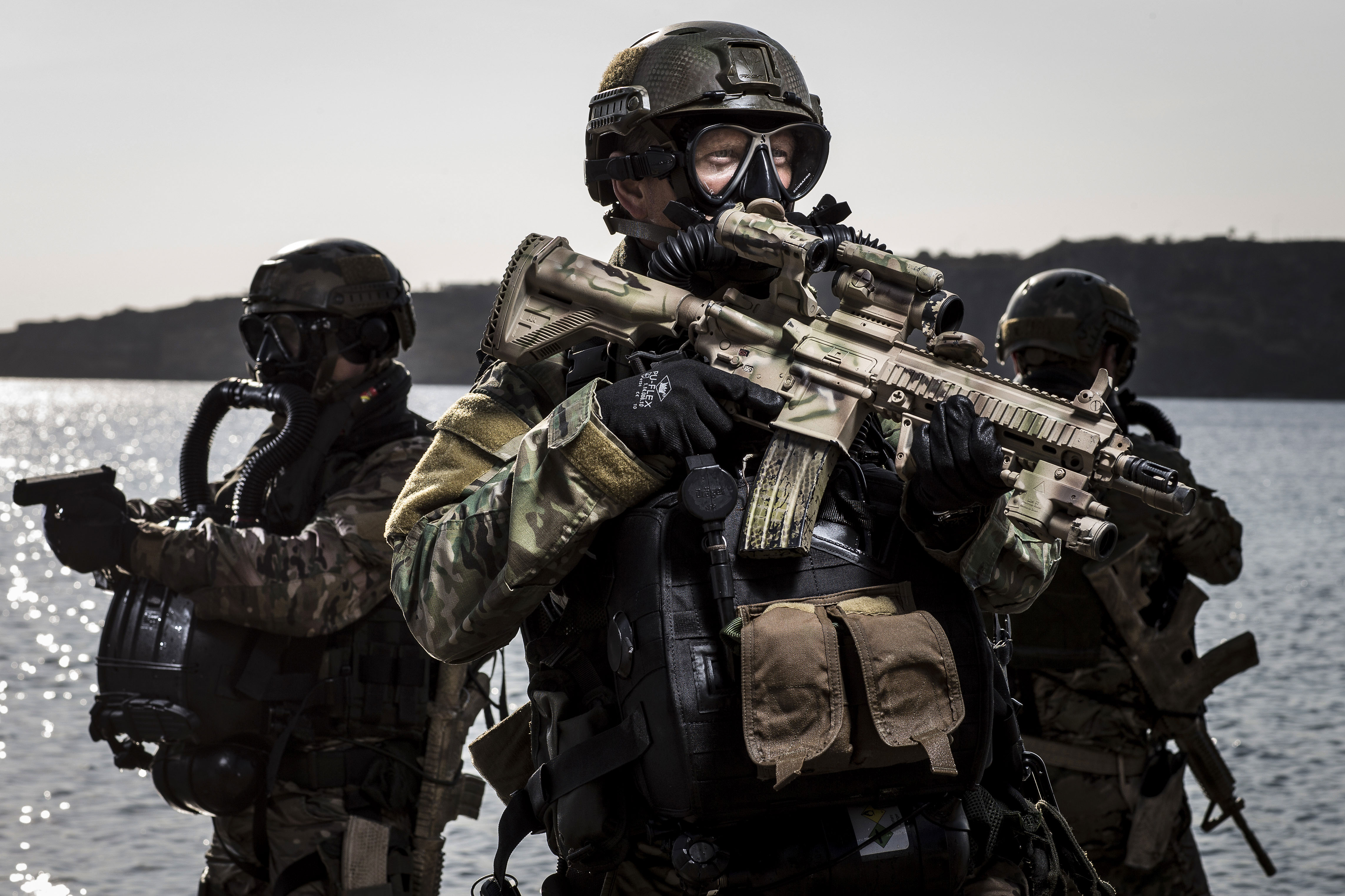 A diver of the Dutch Korps Commandotroepen with a HK416 D10RS